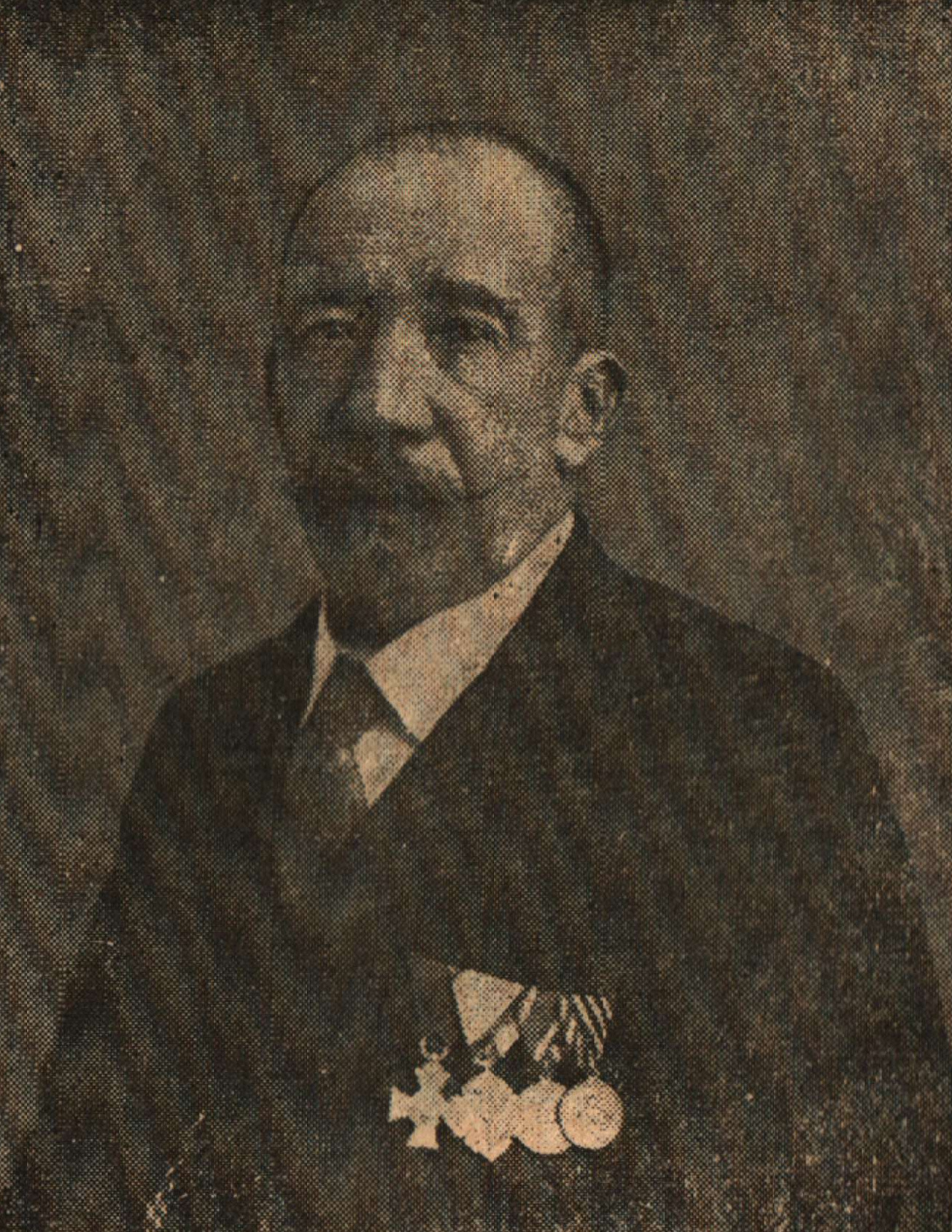 Bulgarian actor Anton Popov (1853-1927)